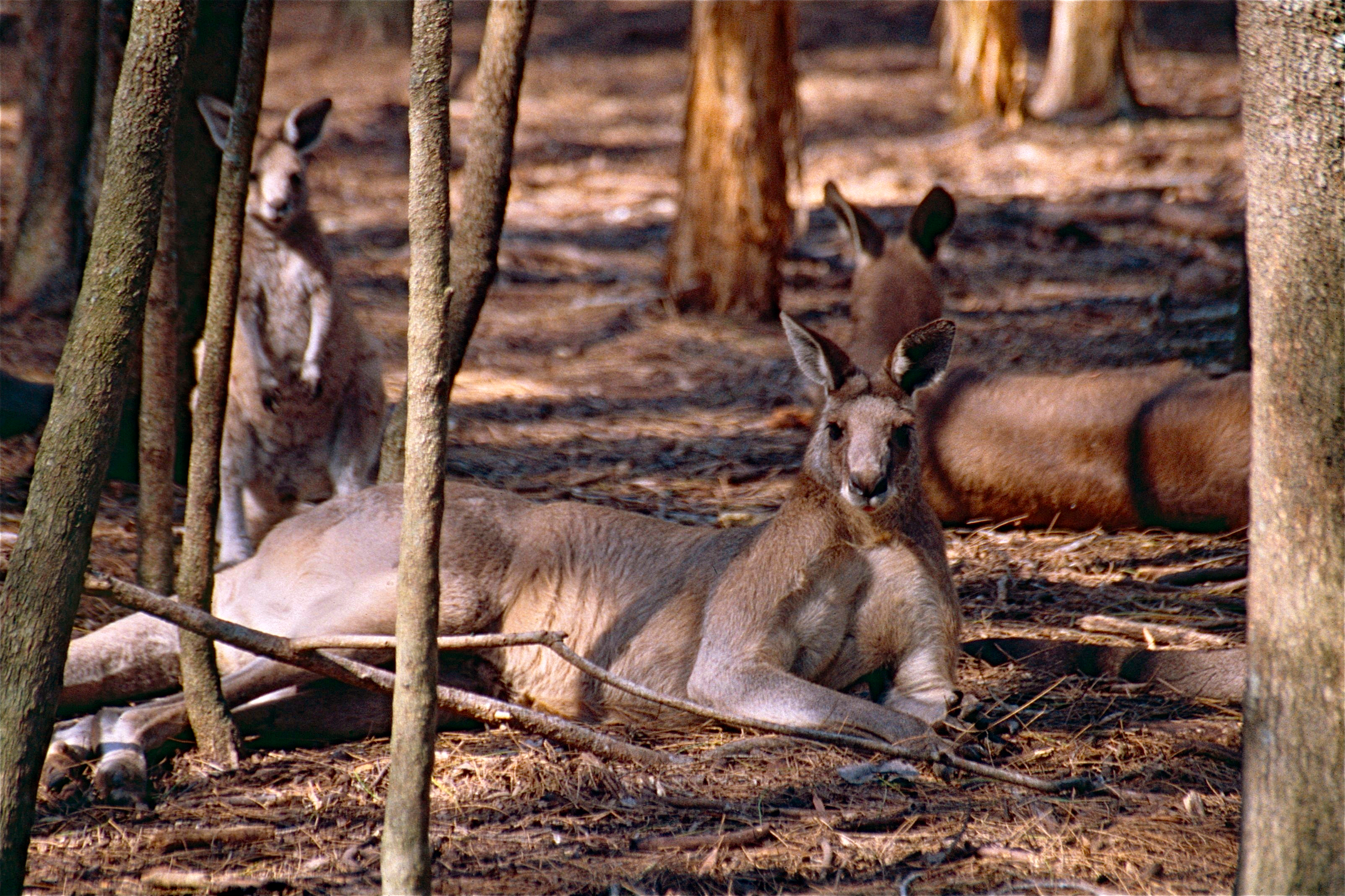 David Fleay Wildlife Park, Burleigh Heads, Gold Coast, South Queensland, AUSTRALIA Scanned Slide from Dec 2000